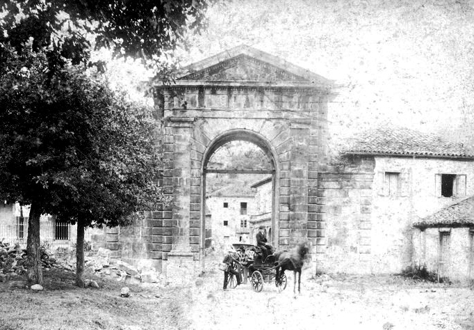 Arc of Carlos III in La Cavada. Gateway to the Royal artillery factory in La Cavada (Cantabria, Spain)